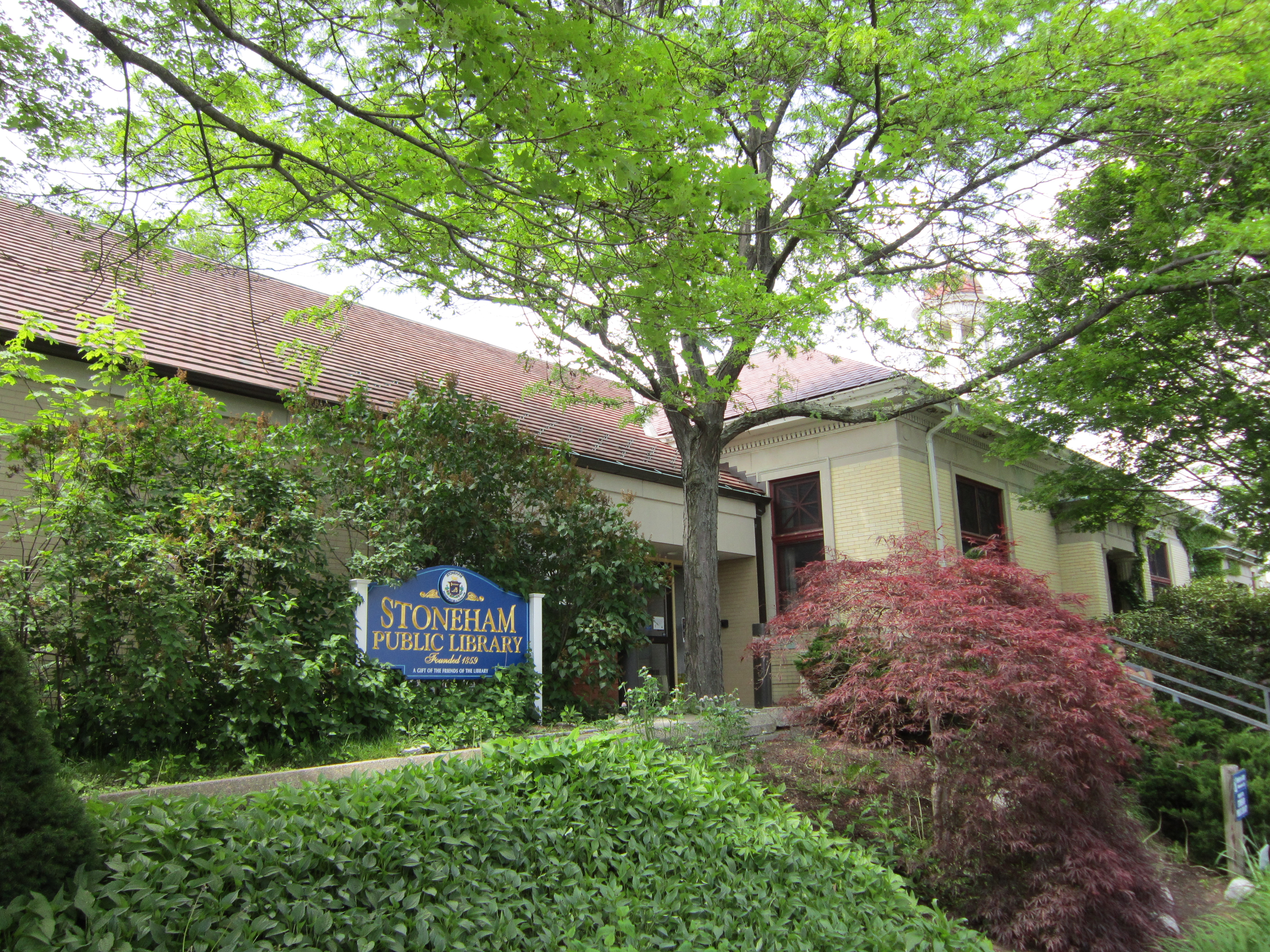 Stoneham Public Library 431 Main Street Stoneham, Massachusetts